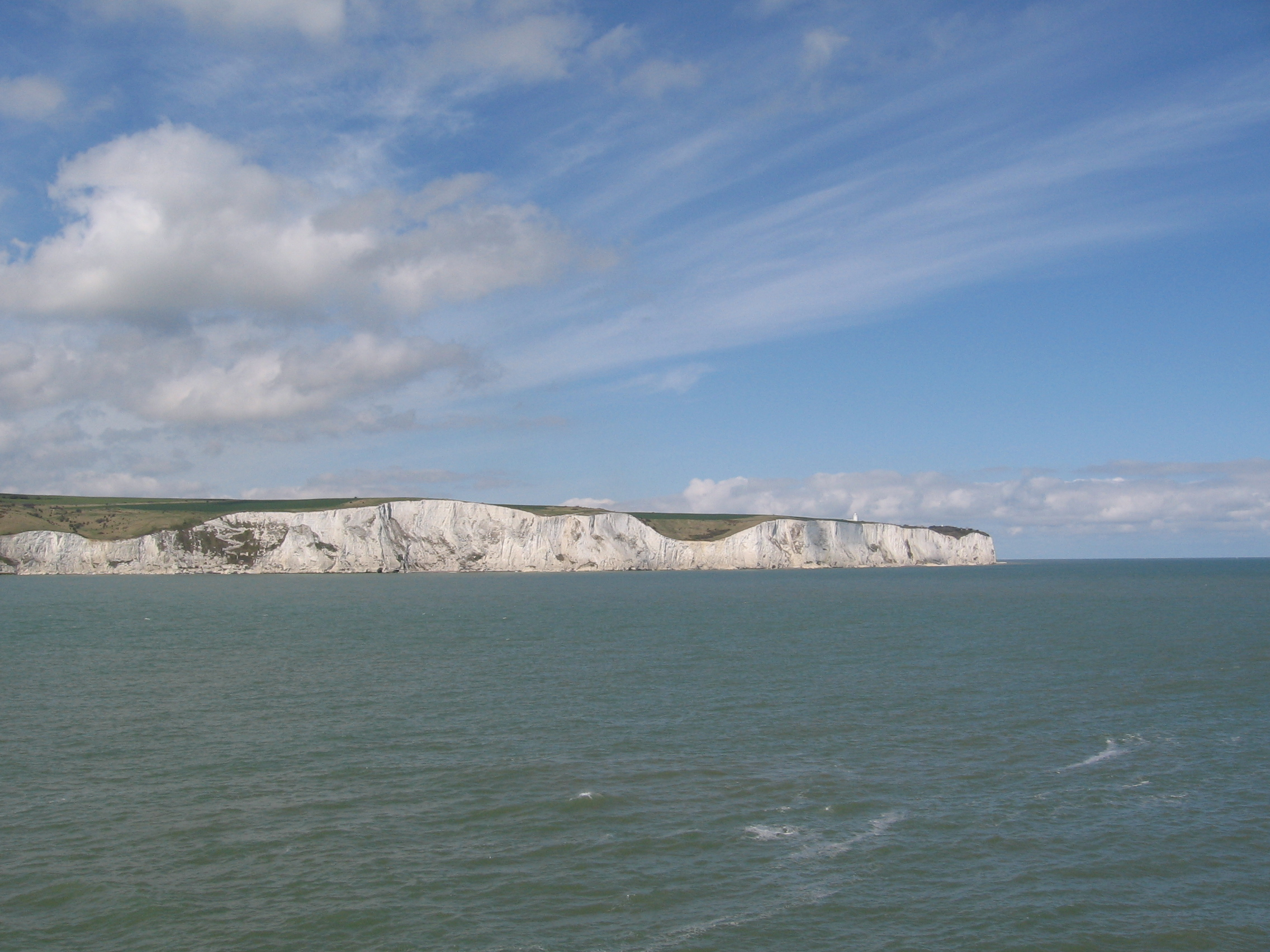 The white cliffs of Dover